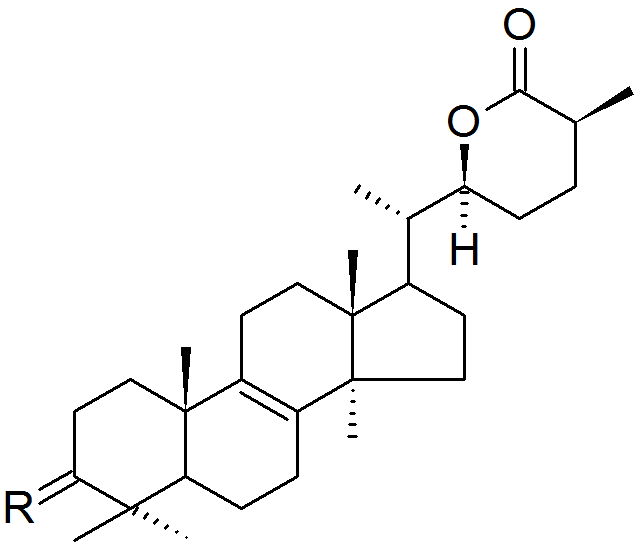 2D chemical model of astrahygrols from the fungus Astraeus hygrometricus.